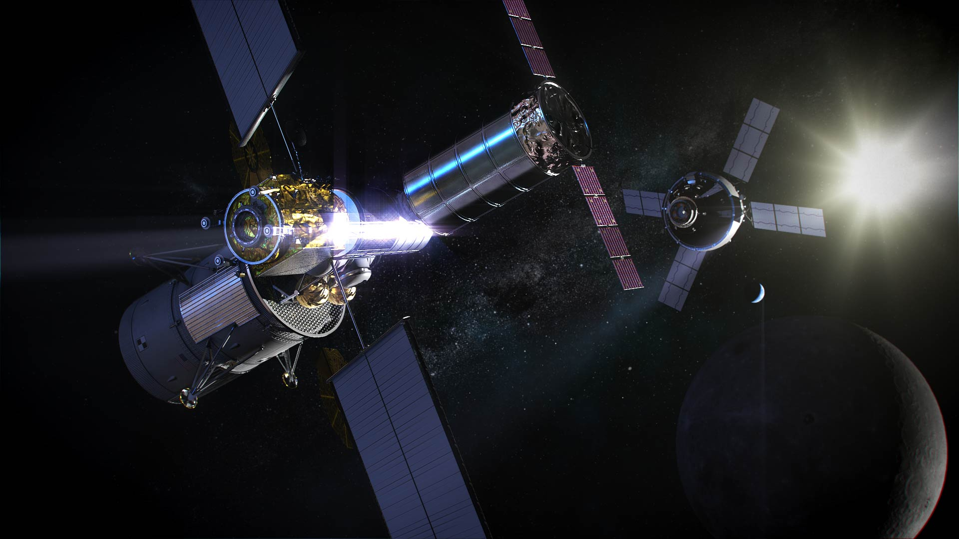 Artist concept of the logistics module docked to Gateway in lunar orbit. NASA will seek solicitations from American companies to deliver cargo and other supplies to the lunar outpost that will support human exploration of the Moon by 2024.